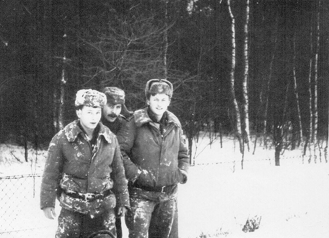 Border Protection Forces in Bielawa Dolna